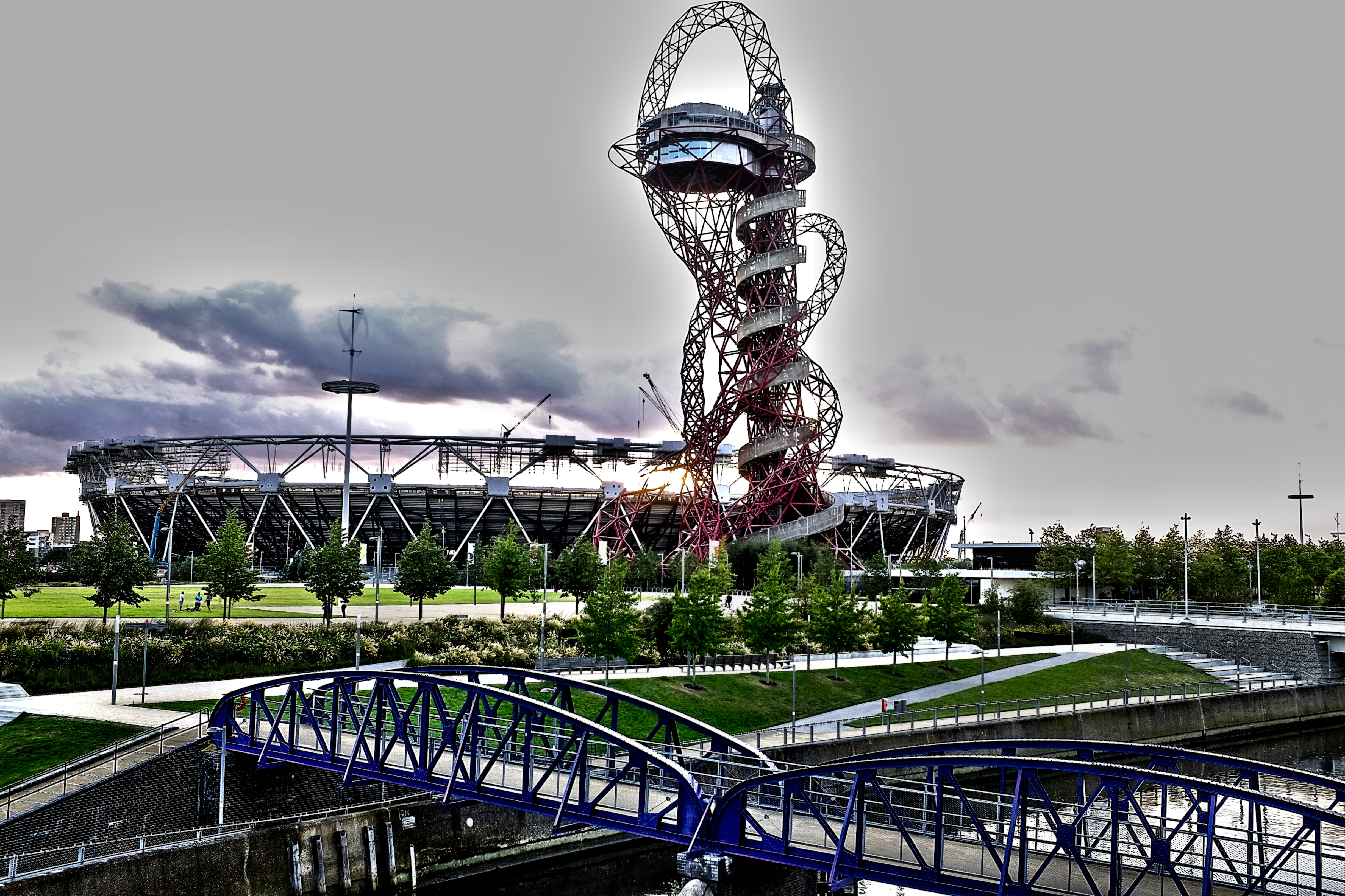 Olympic Stadium London